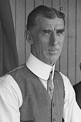 Connie Mack of the Phila Athletics, in the dugout, 1913. Cropped tight.